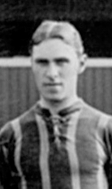 Frank Bentley while with Brentford FC 1912/13